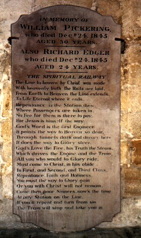 Railway accident inscription in Ely cathedral. Uploaded by User:Smerus